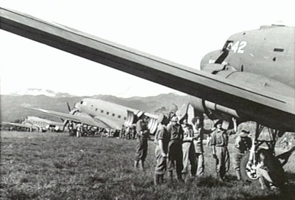 Transport planes being unloaded at an advance ground near Wau, New Guinea. 29 June 1943. Photographer: G. Short